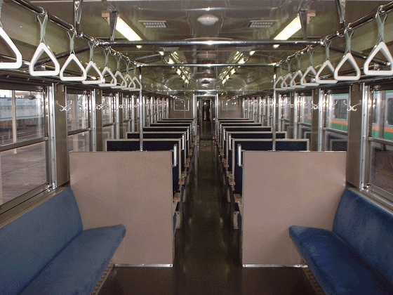 Interior of a JR East 455 series EMU at Kuroiso Station on the Tohoku Main Line